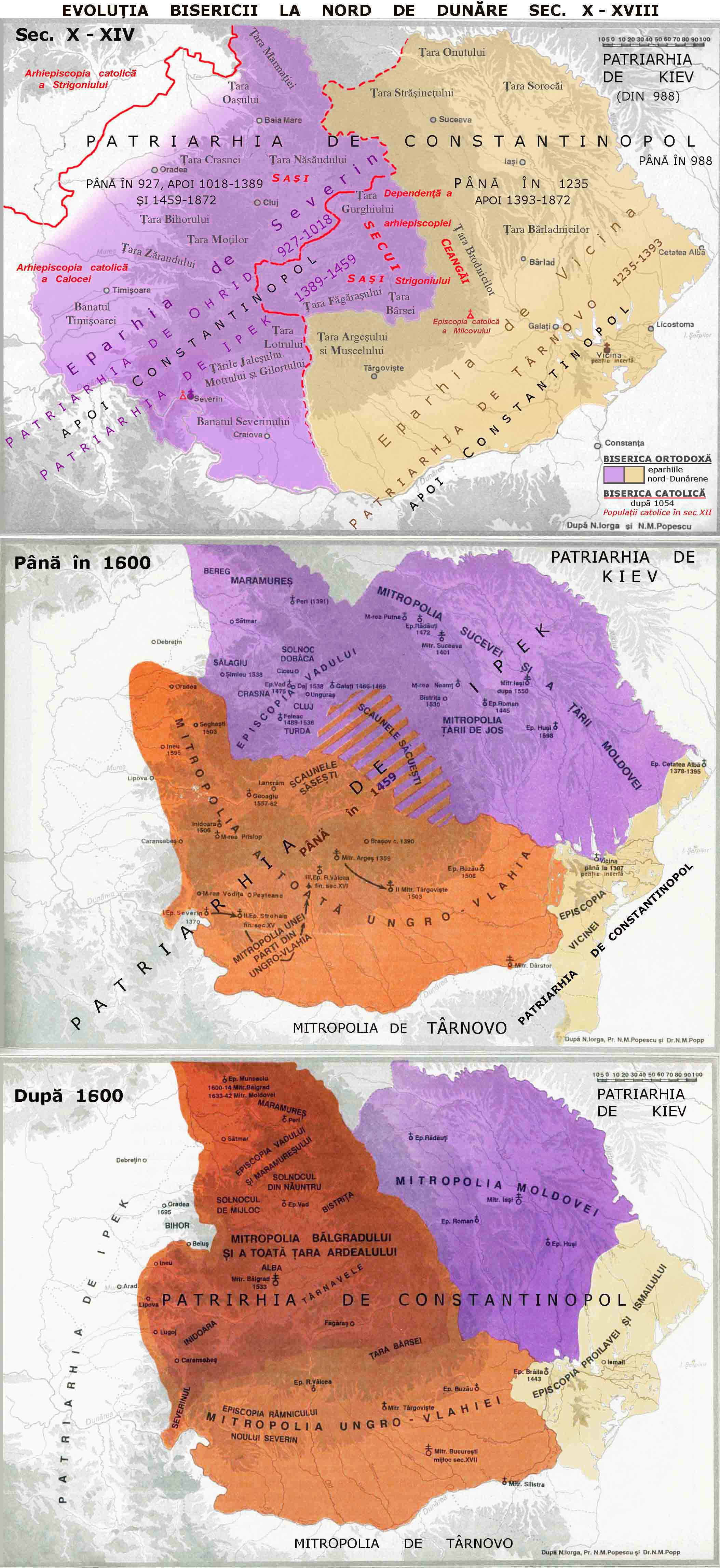 Maps showing the history of the Orthodox church in the romanian lands, X-XVIIIth centuries